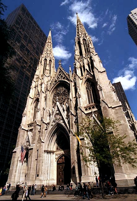 St Patricks Cathedral Exterior